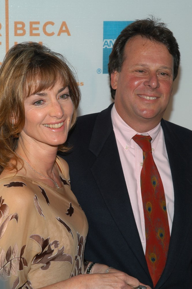 Producer Richard Lewis and his wife arrive at the screening of HOUSE OF D May 7, 2004 at the Tribeca Performing Arts Center for the 2004 Tribeca Film Festival.